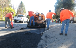 Road Work in Boise, Idaho